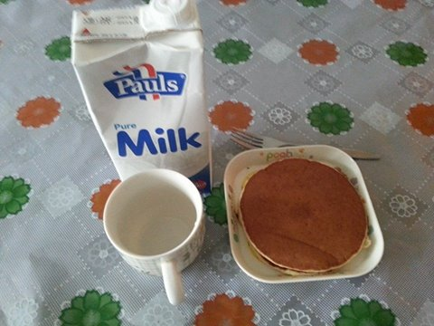 little pencake n Pauls pure Milk n ear ring cup n plastic cover table